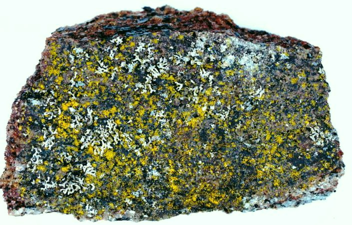 Chrysothrix candelaris (L.) J.R. Laundon, 1981 Photograph of a herbarium specimen showing yellow granules. [Chemical spot test: K-.] [Yellow granules measure 30-40 microns.] This specimen of Chrysothrix candelaris was growing on a rock cliff on the old Alberton Road in the Patapsco Valley State Park in Hollofield, Baltimore County, Maryland, USA. Collected and determined by E.C. Uebel (No. U-294, 21 Jul 2001)